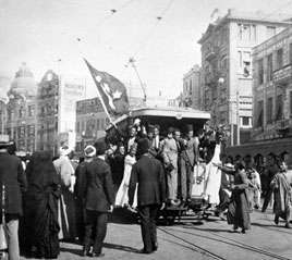 Demonstrations1919, tram in cairo